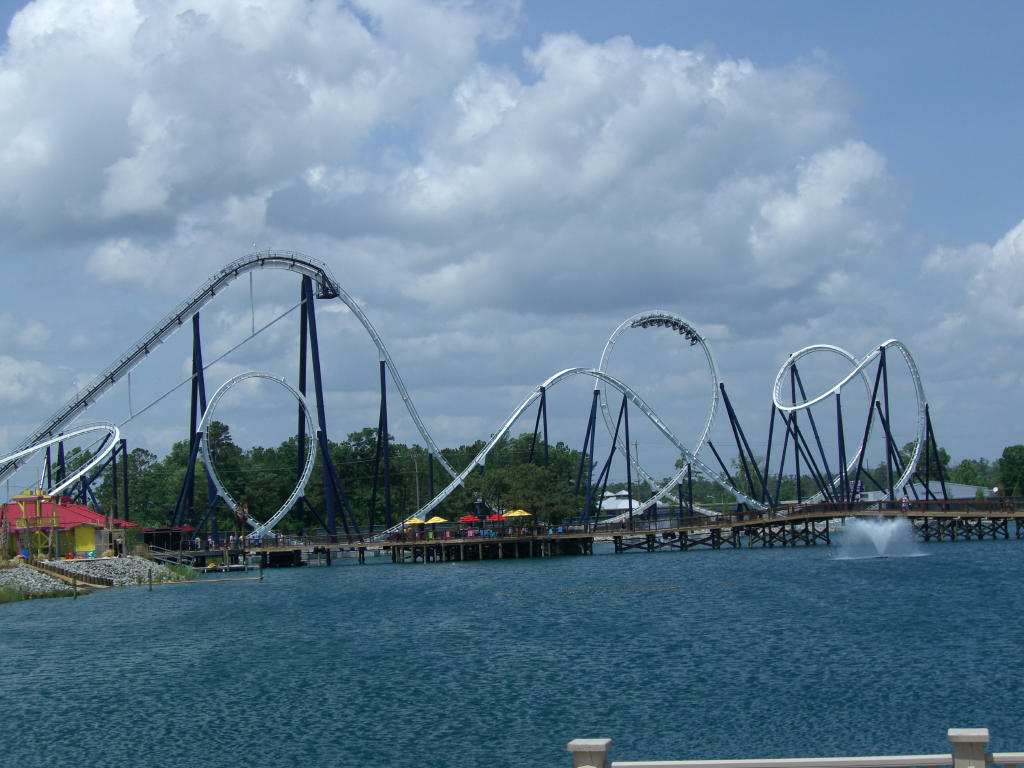 Led Zeppelin - The Ride at Hard Rock Park (Note: This is not the full quality image, if you would like to use a higher quality image for a publication, contact me)